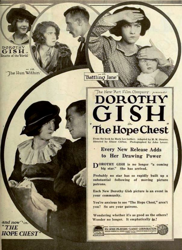 Ad for the American comedy drama film The Hope Chest (1918) with Dorothy Gish, on page 139 of the January 11, 1919 Moving Picture World.